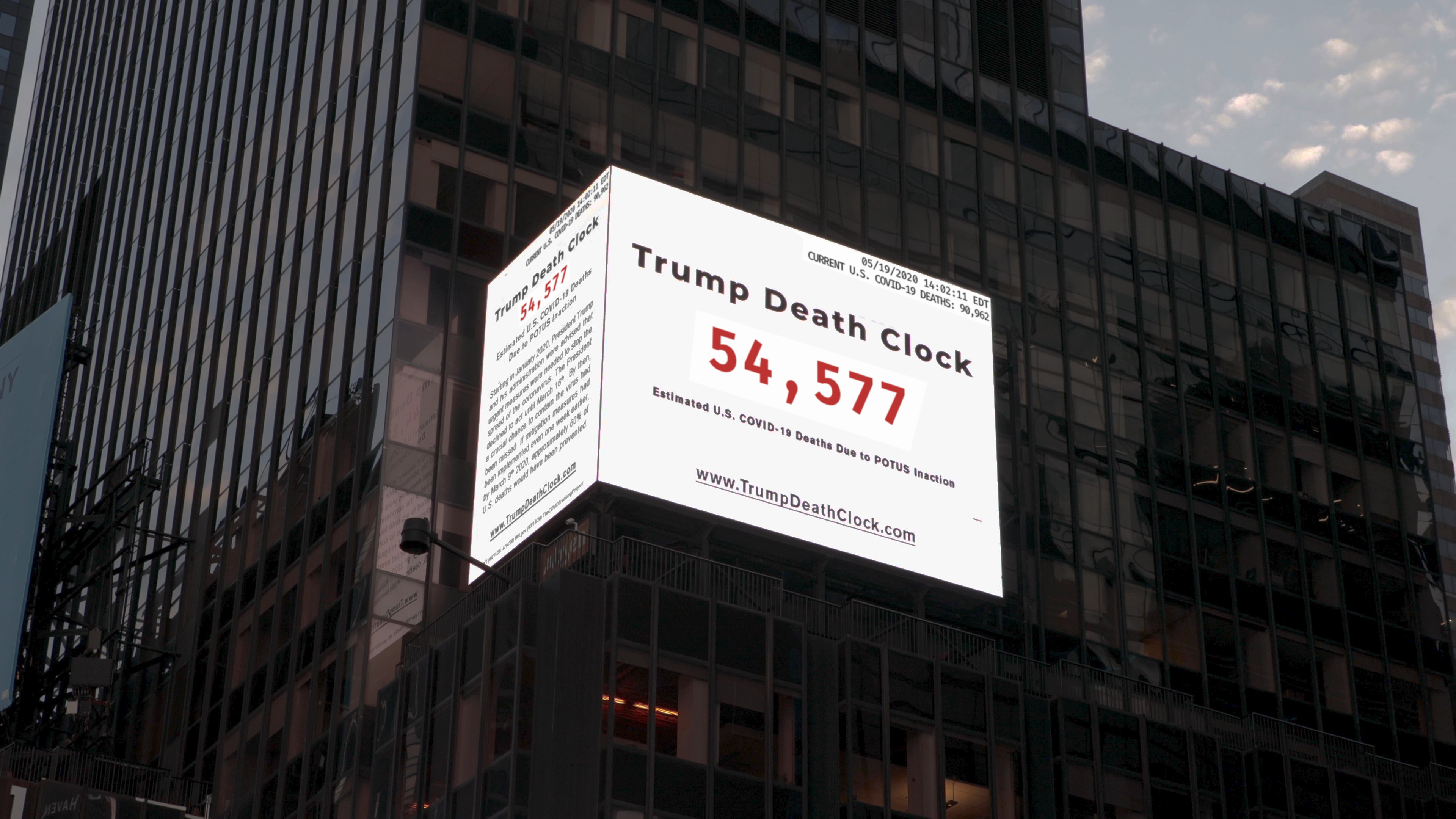 The Trump Death Clock on May 19, 2020